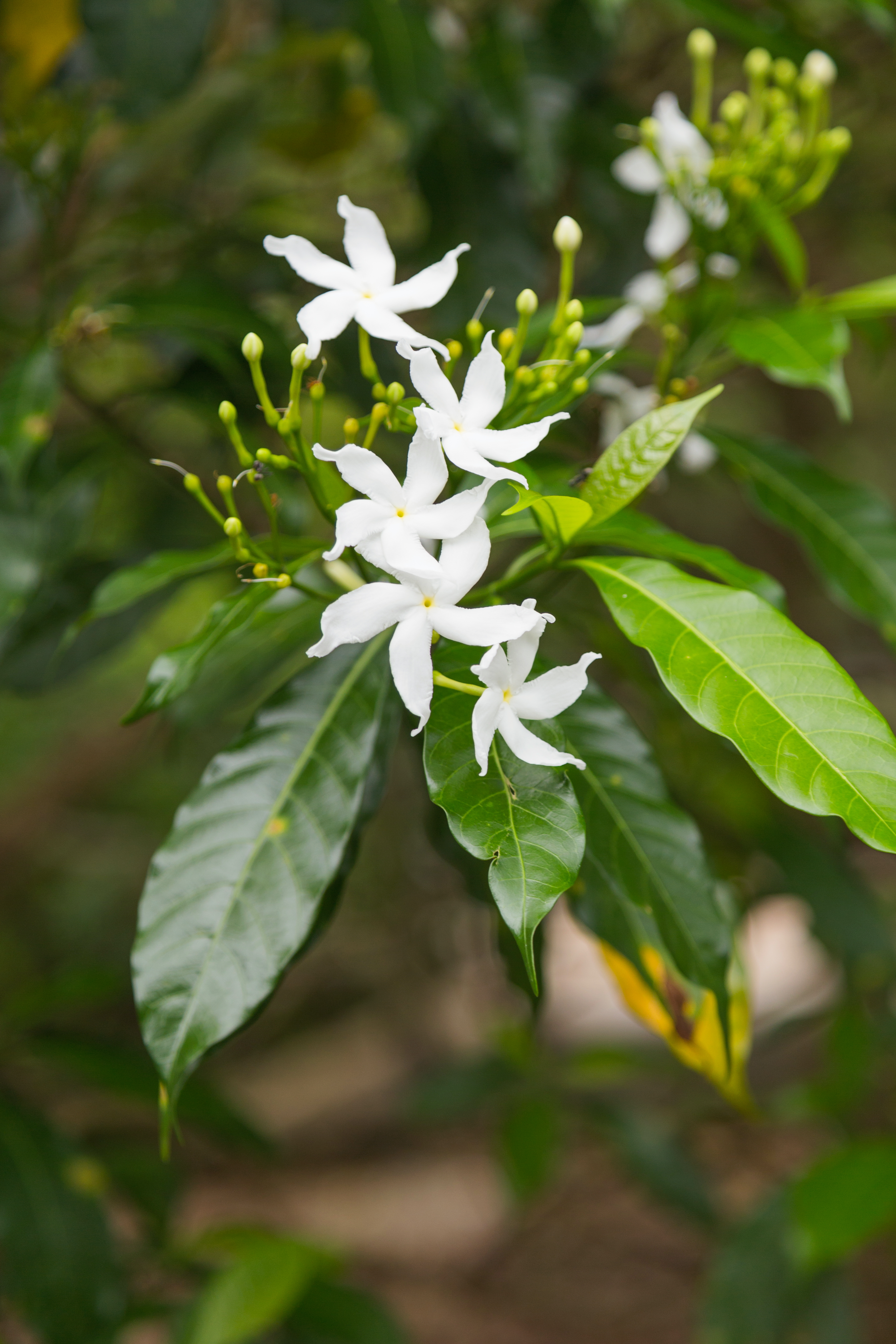 Tabernaemontana africana. Botanic Gardens. Central Region, Singapore.